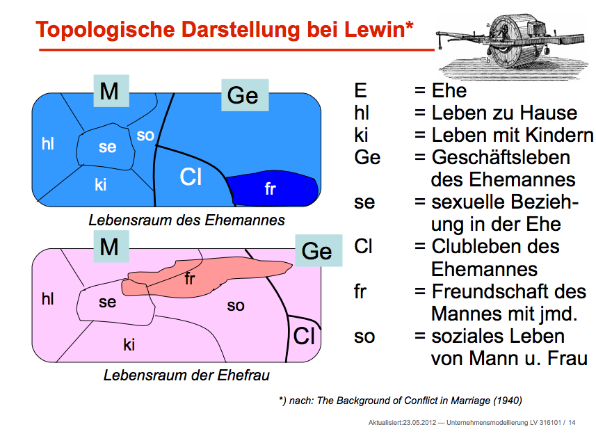 Nach Kurt Lewin—Lebensraumbild